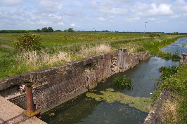 Leven Canal Lock, East Riding of Yorkshire, England.Between 1805 and 1935 this lock allowed traffic to pass between the River Hull and the three and a quarter mile long canal. The canal is now closed to traffic and designated a Site of Special Scientific Interest.